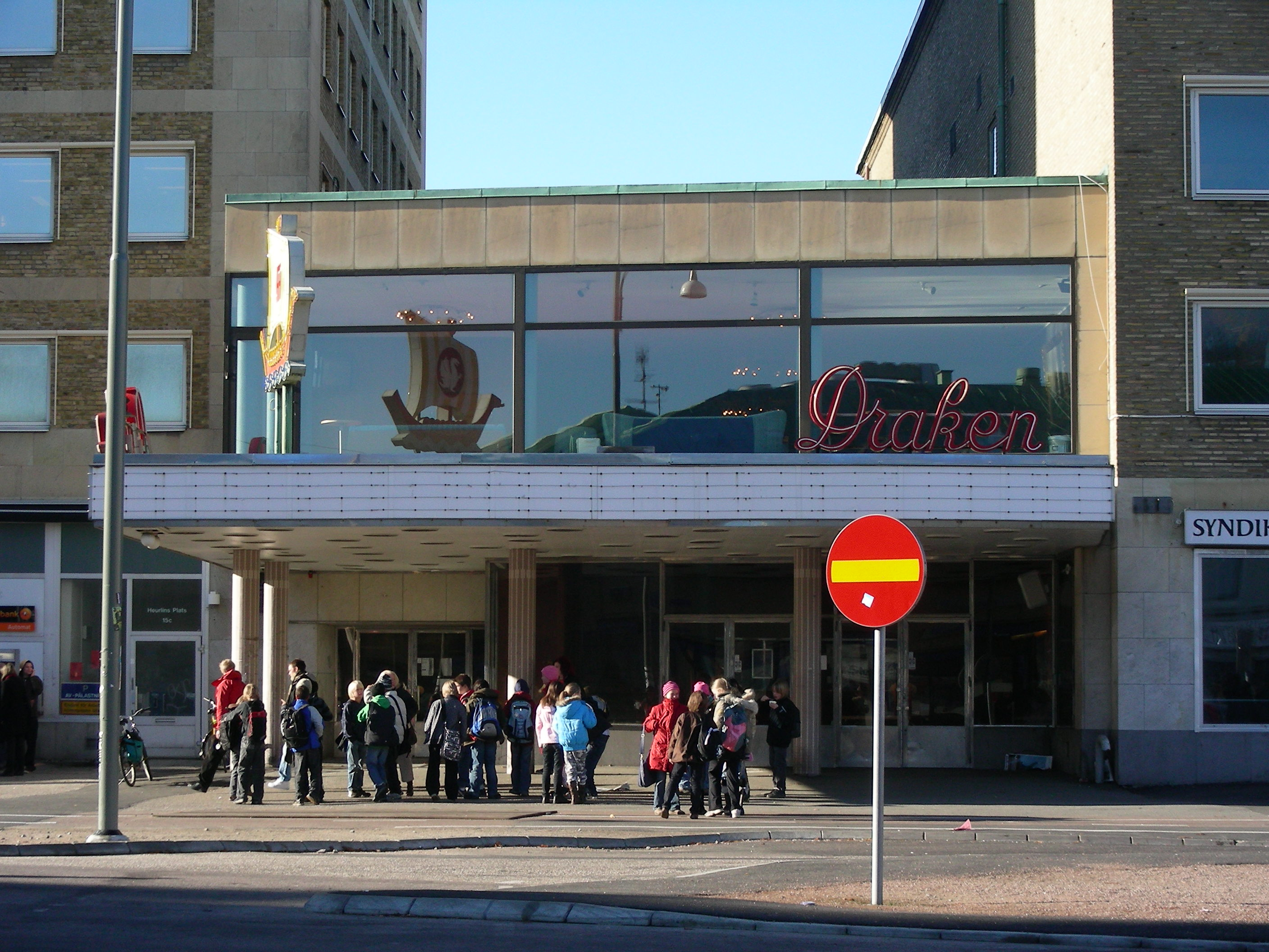 Draken, big screen cinema from 1956 (Draken (biograf, Göteborg) Camera: Nikon Coolpix S4 Location: Järntorget, Gothenburg, Sweden.